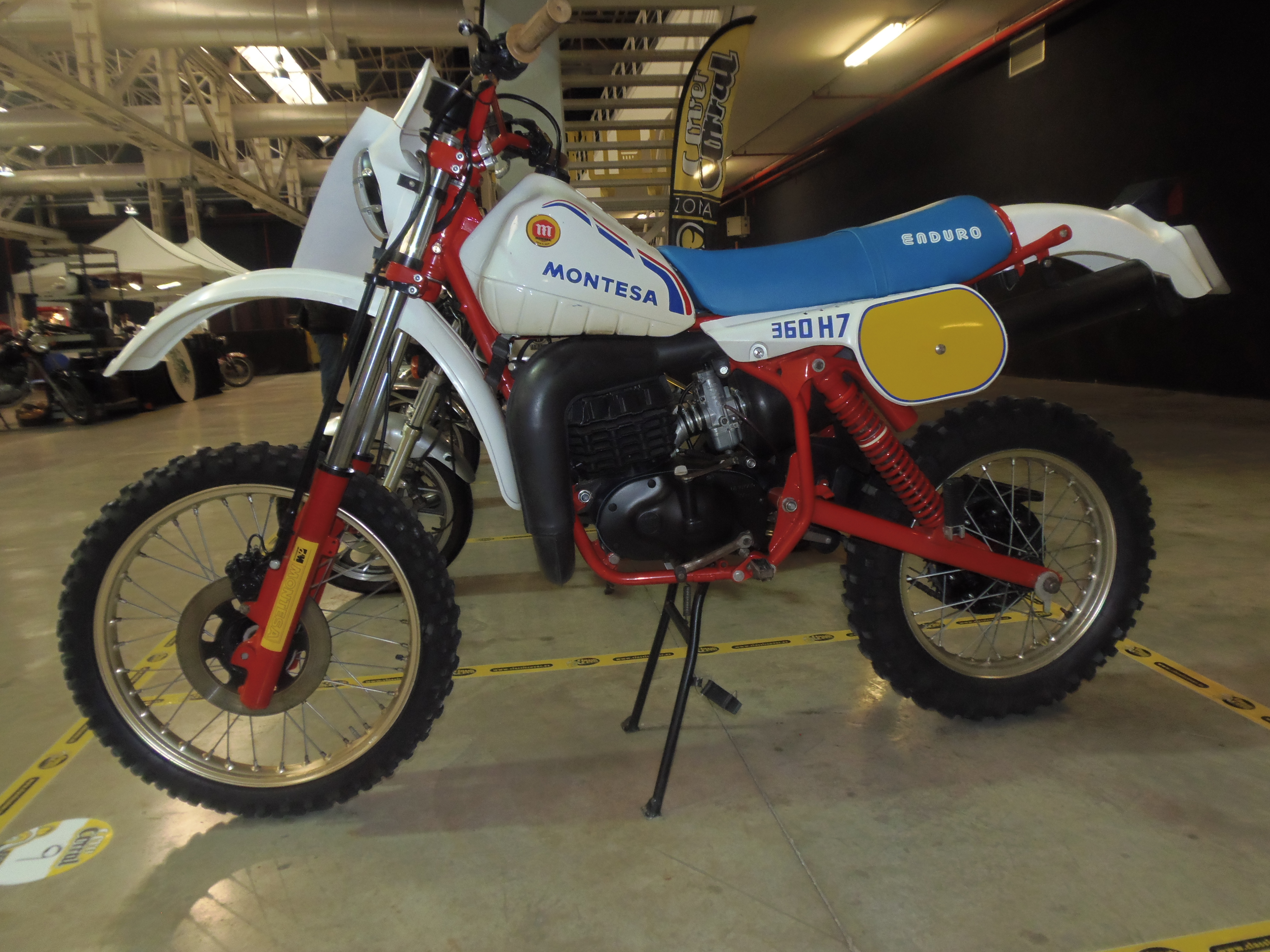 Montesa Enduro H7 360 Carles Mas Replica (1986)